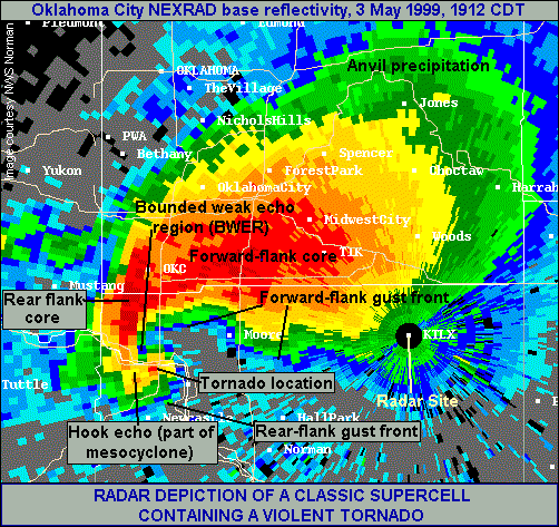 A radar image of a violently tornadic classic supercell near Oklahoma City, Oklahoma, USA on 3 May 1999.